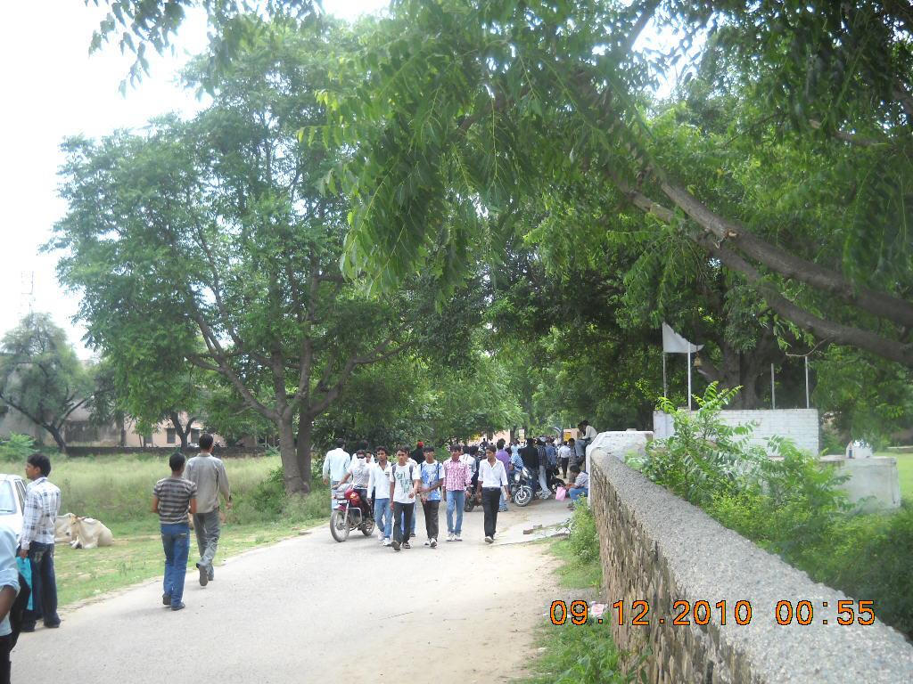 on the road